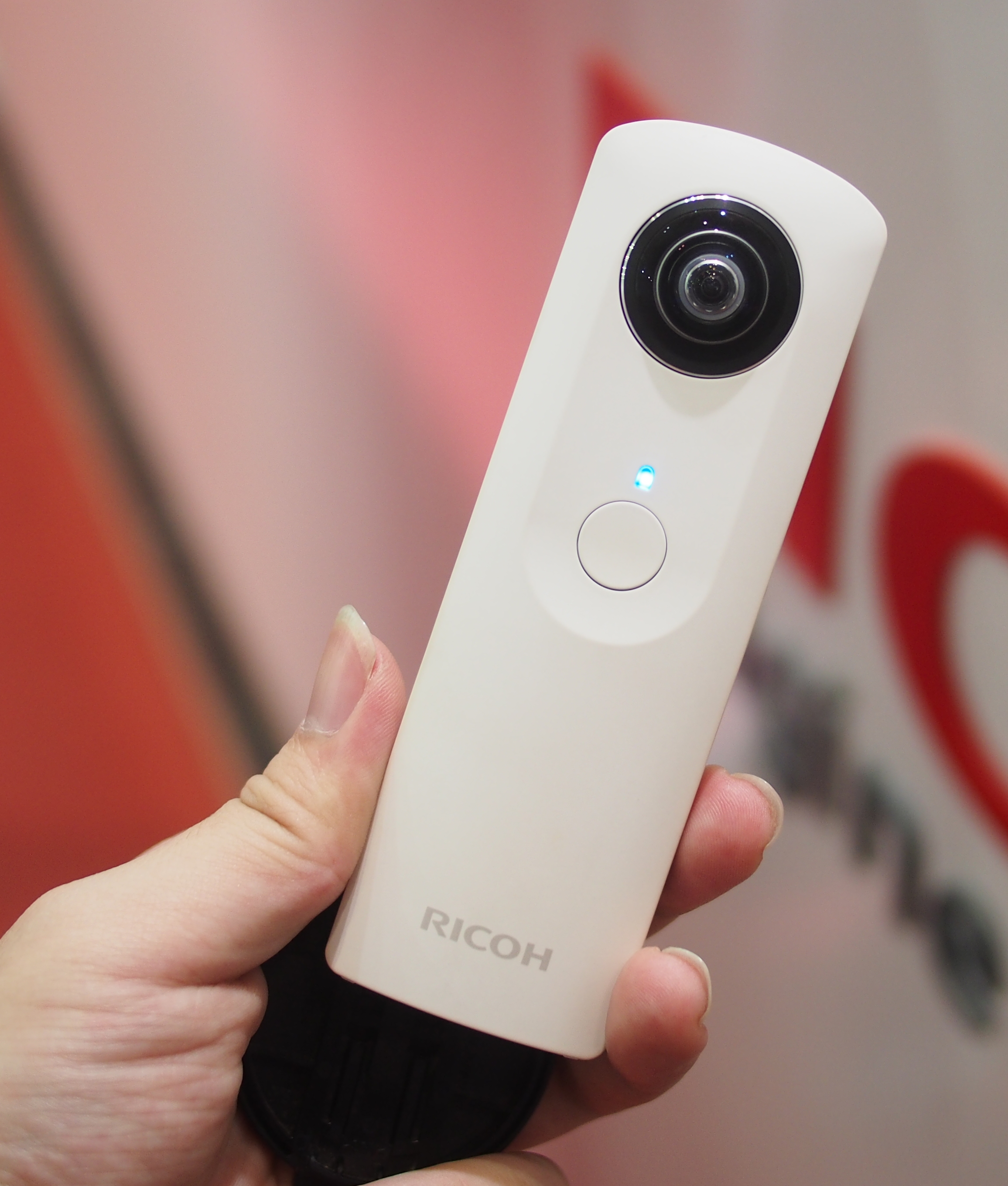 Ricoh THETA Camera,Front look